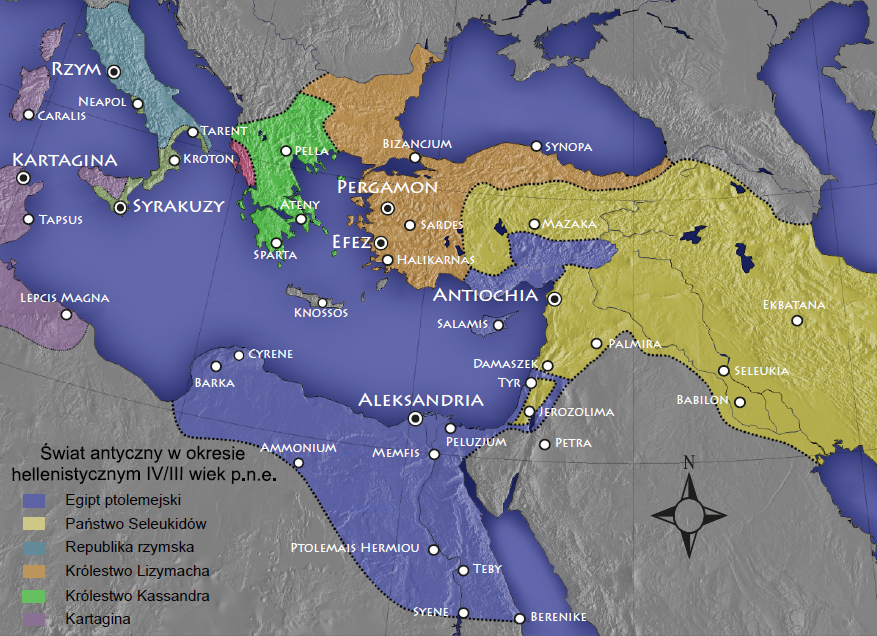 Hellenistic kingdoms ca. 300 BC